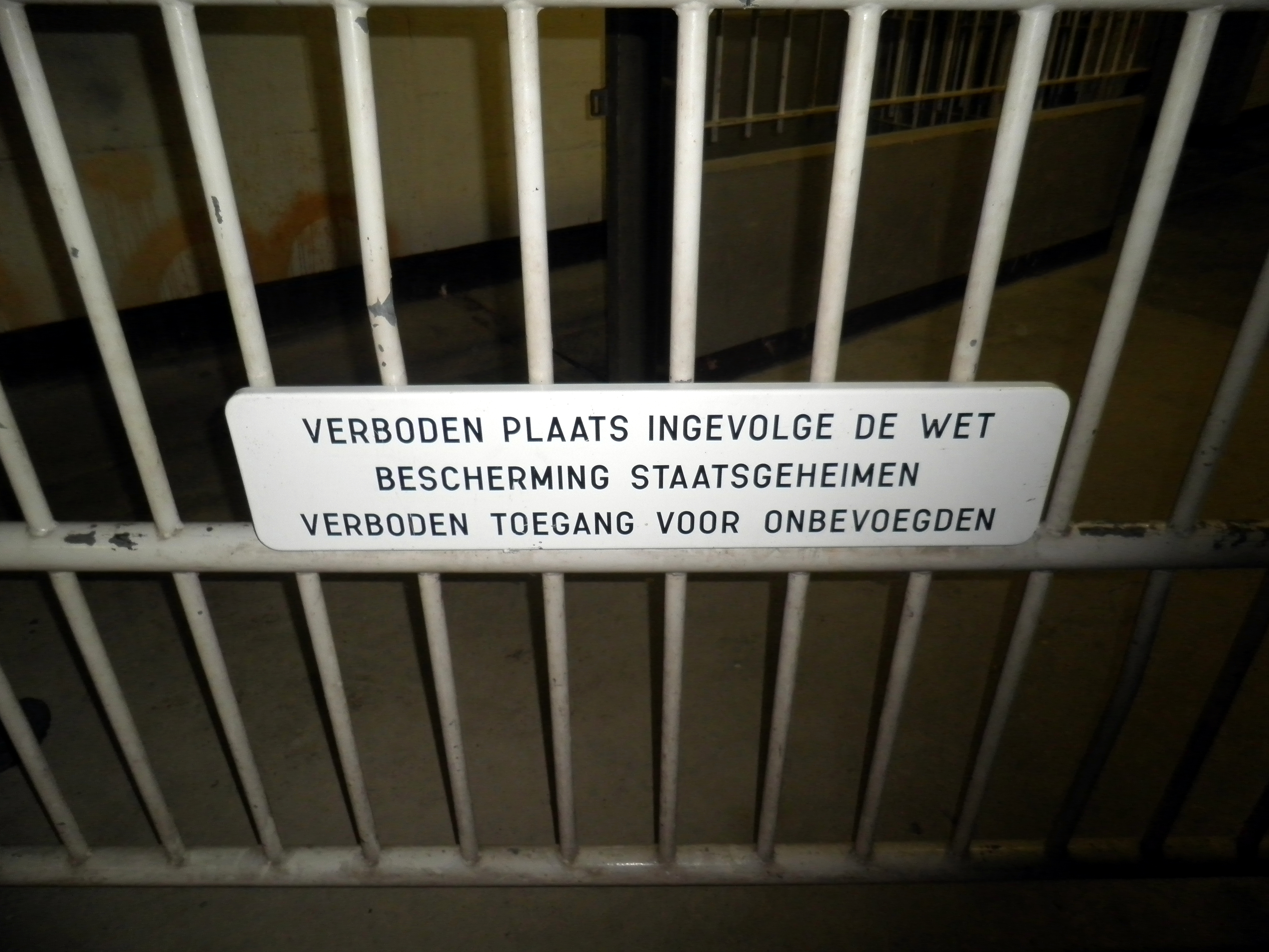 NATO headquarters Cannerberg - Entrance (inside) - Sign